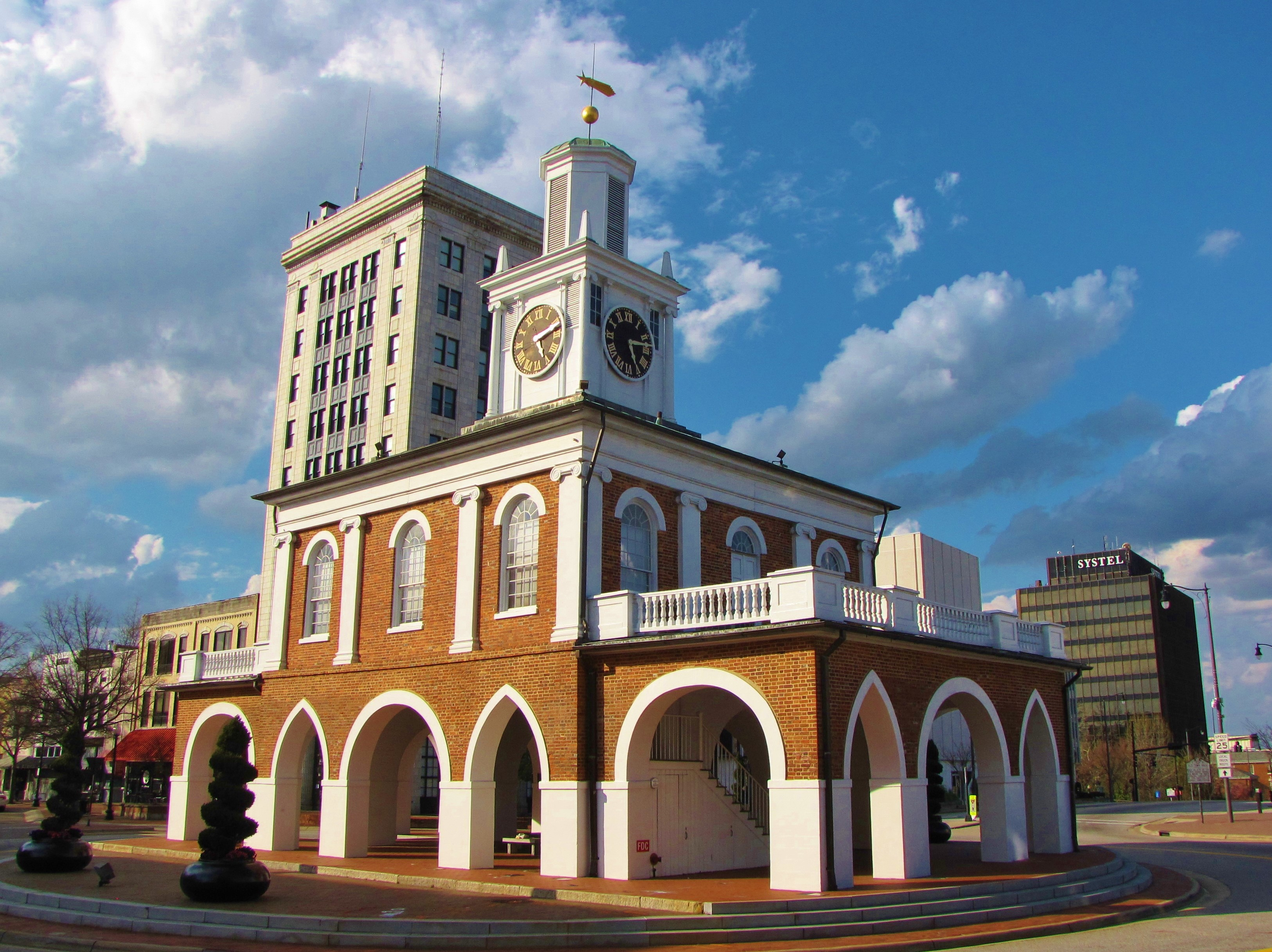 Downtown Fayetteville, NC